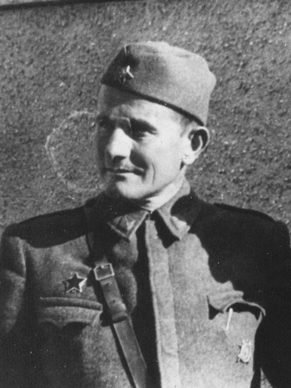 Niko Strugar (1901–1962)